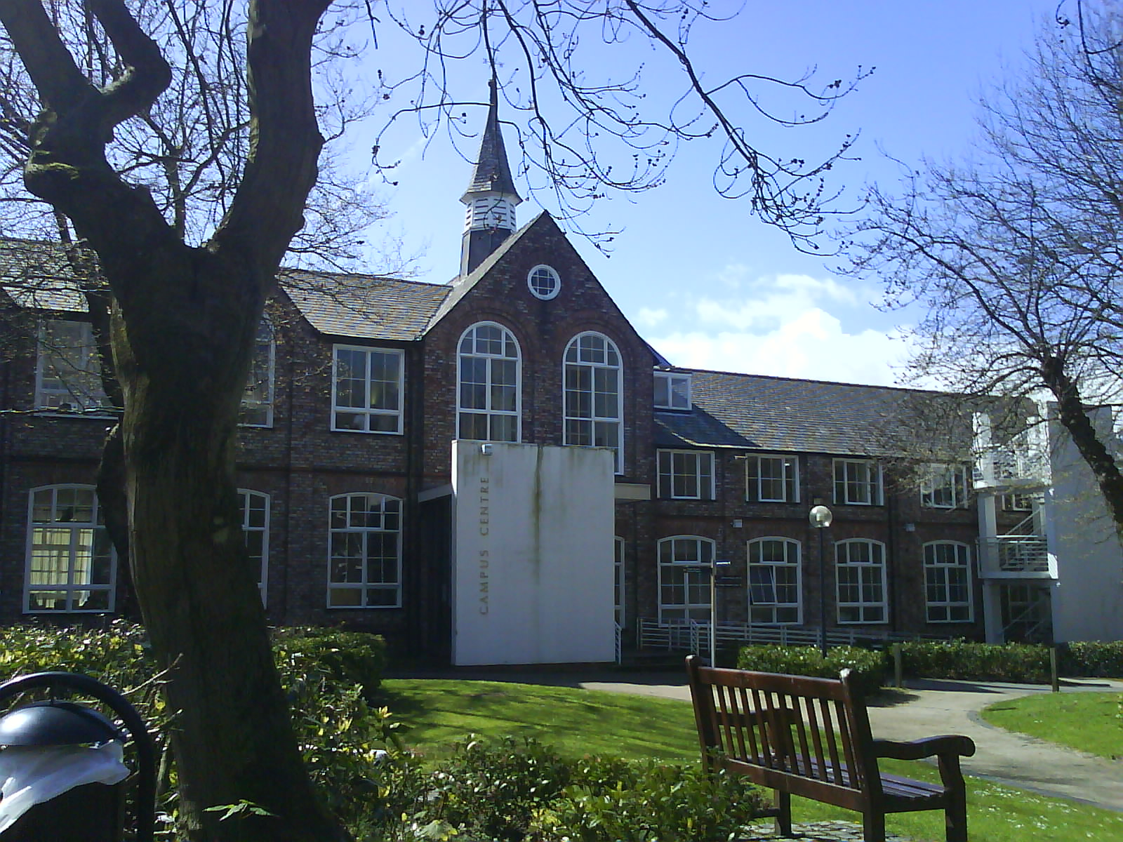 I own this image, and release it into the public domain. LJMU Campus Centre 24/04/08